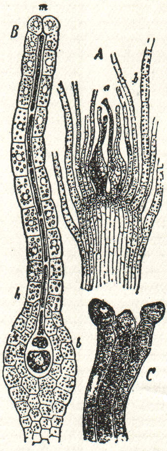 Archegonium of Moss